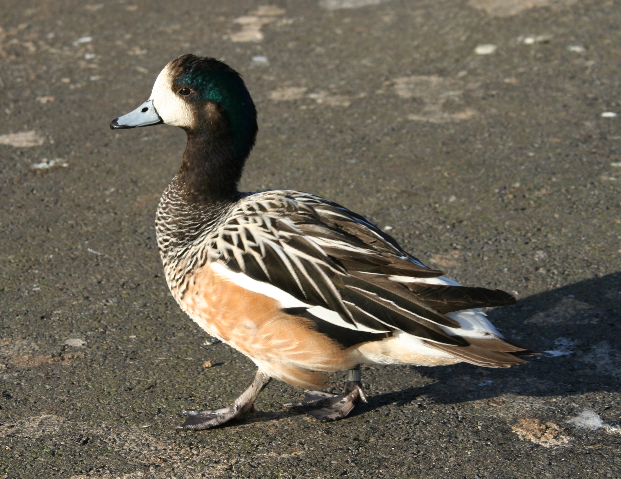 Chiloe Wigeon Taken by Duncan Wright